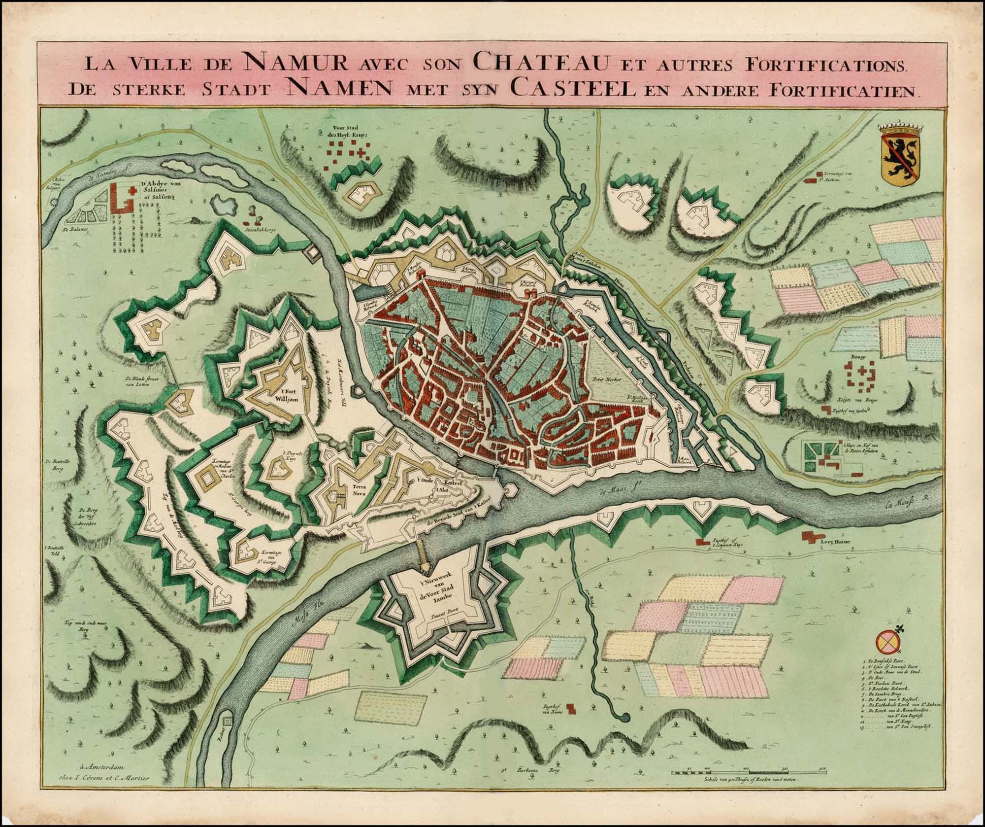 Map of the Namur Fortress in 1745